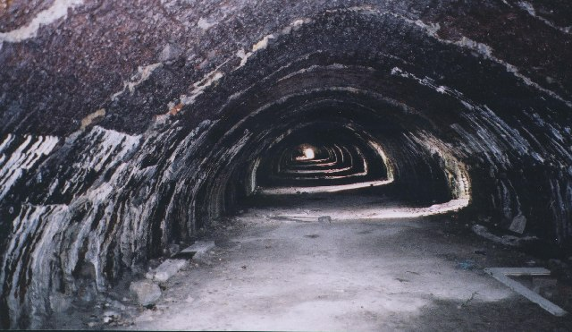 Hoffman kiln. Inside the kiln. Completed in 1873 it is a large oval, 128m long, and fired limestone in a continuous process, the fire moving round the oval.